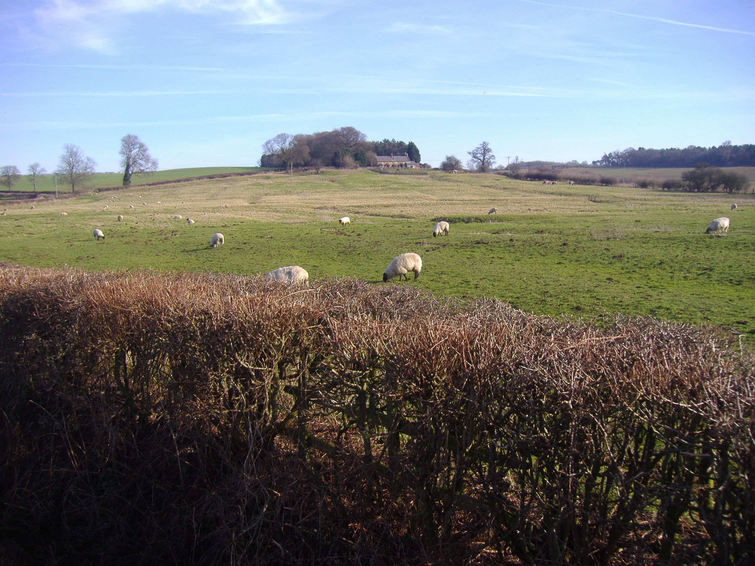 A digital photograph of the site of the desserted village of Muscott near Norton in Northamptonshire taken on the 9th Feb 2008 by Stavros1 (talk) 22:03, 12 February 2008 (UTC)